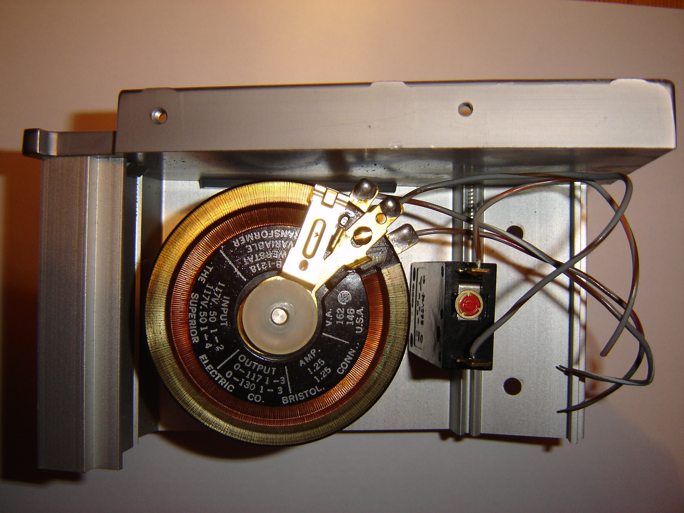 Variable Transformer - part of Tektronix 576 Curve Tracer